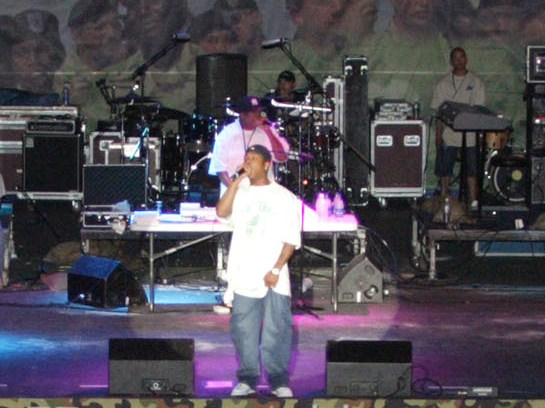 Rap artist, Ja Rule.